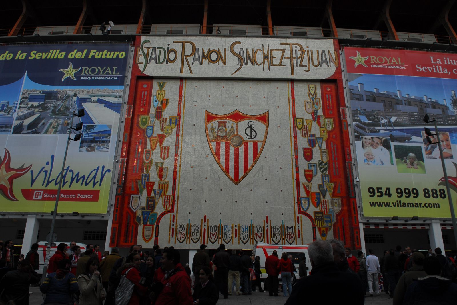 Main entrance of the Sevilla FC stadium